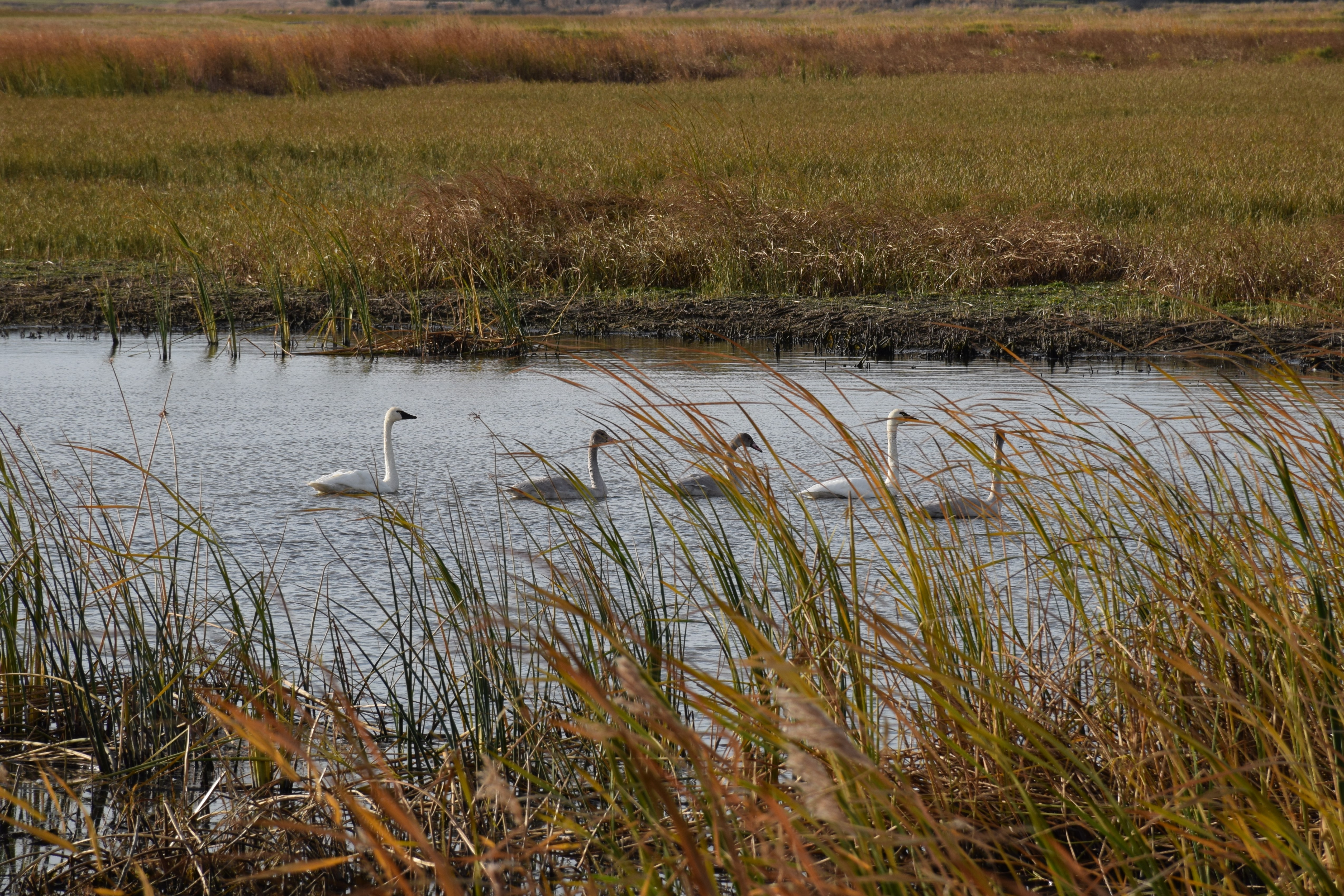 Tundra swans are the smallest and most numerous swans at J. Clark Salyer NWR. The adults are white, while the young are gray. Photo Credit: Colette Guariglia/USFWS